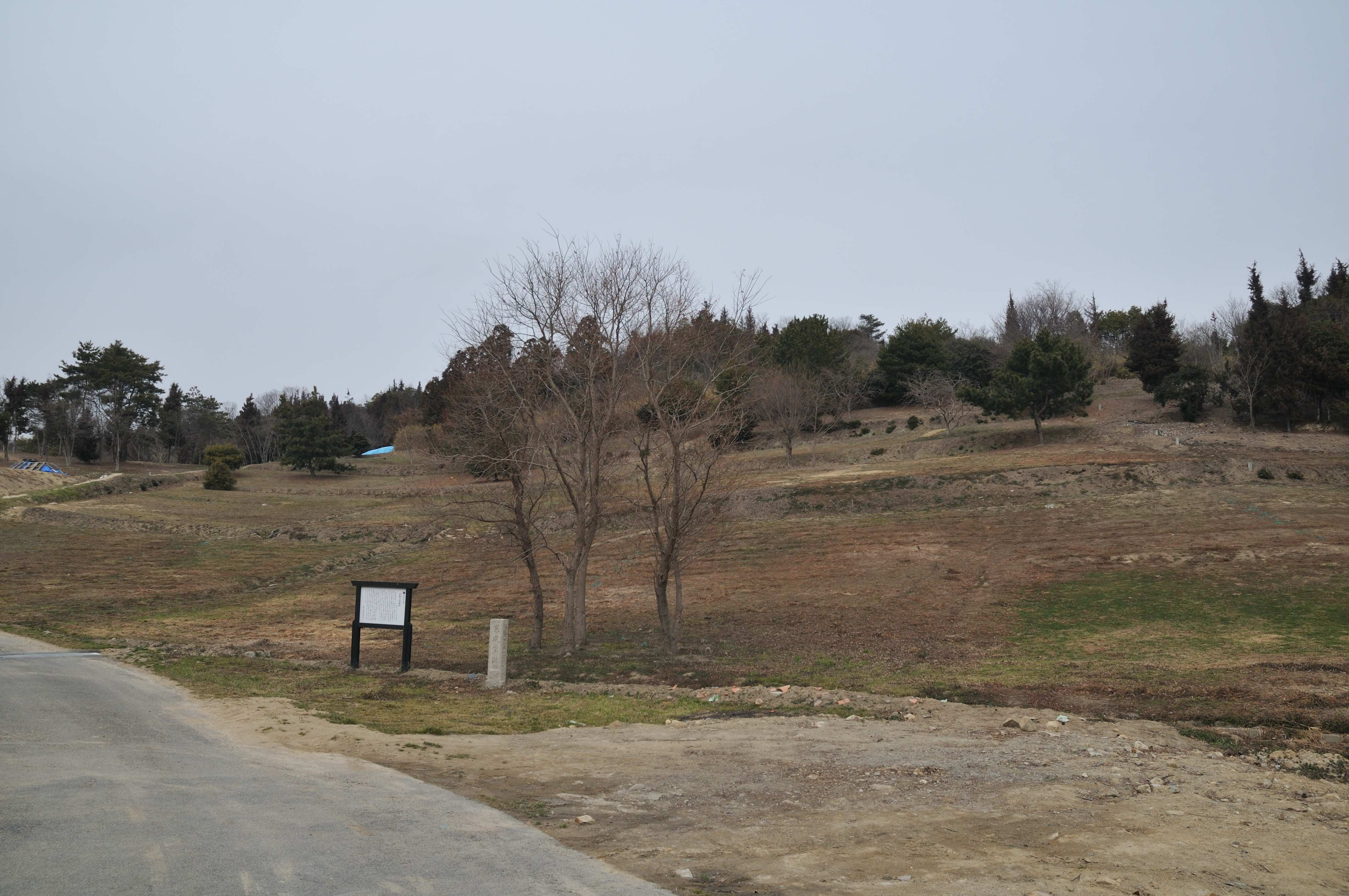 view of Sabukaze remains